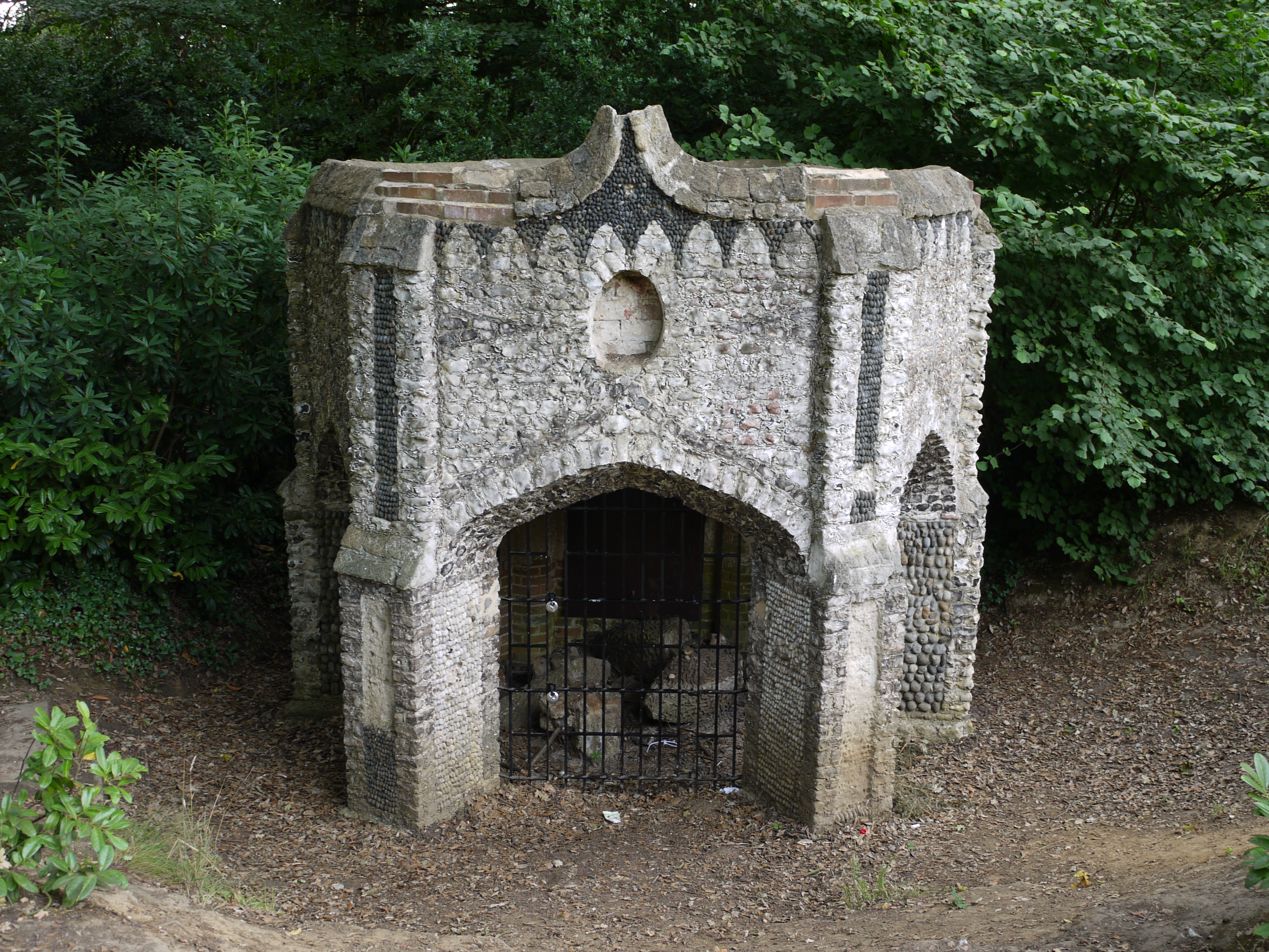 Photo of the shell house in Staunton Country Park taken in 2010